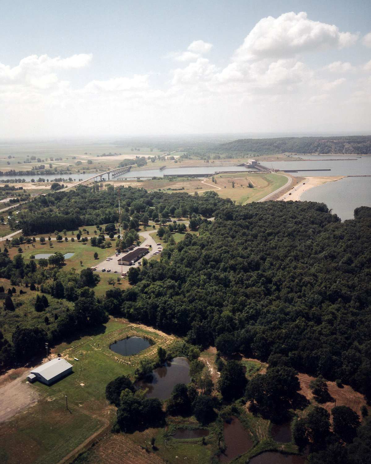 Aerial view of Robert S. Kerr Lock and Dam on the Arkansas River in Le Flore and Sequoyah Counties, Oklahoma, USA. The river is the border between the two counties at this point. The lock and dam are part of the McClellan-Kerr Arkansas River Navigation System, which provides for barge navigation on the Arkansas River and some of its tributaries. The U.S. Army Corps of Engineers maintains the locks and navigation system. The lock and dam were named Short Mountain Lock and Dam until 1963 when their names were changed. U.S. Route 59 crosses the river on a bridge below the dam. View is to the south-southeast. Coordinates: 35°20′46.63″N 94°46′37.48″W / 35.3462861°N 94.7770778°W